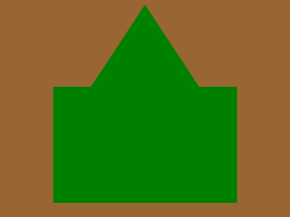 The distinguishing patch of the 47th Battalion (British Columbia), CEF. Contents 1 Summary 2 Captioned As 3 Licensing 4 Original upload log Summary The distinguishing patch of the 47th Battalion (British Columbia), CEF. Captioned As { }